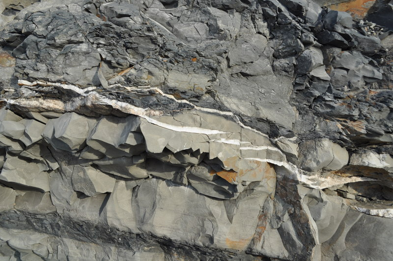 White Gypsum - Veins of gypsum in the silts/marls of the Tea Green and Grey Marls, near to Blue Anchor, Somerset, Great Britain.